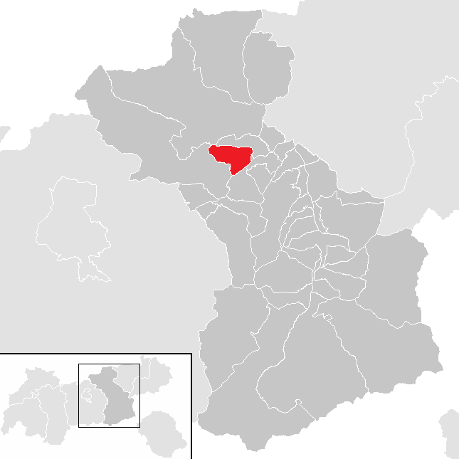 District Schwaz